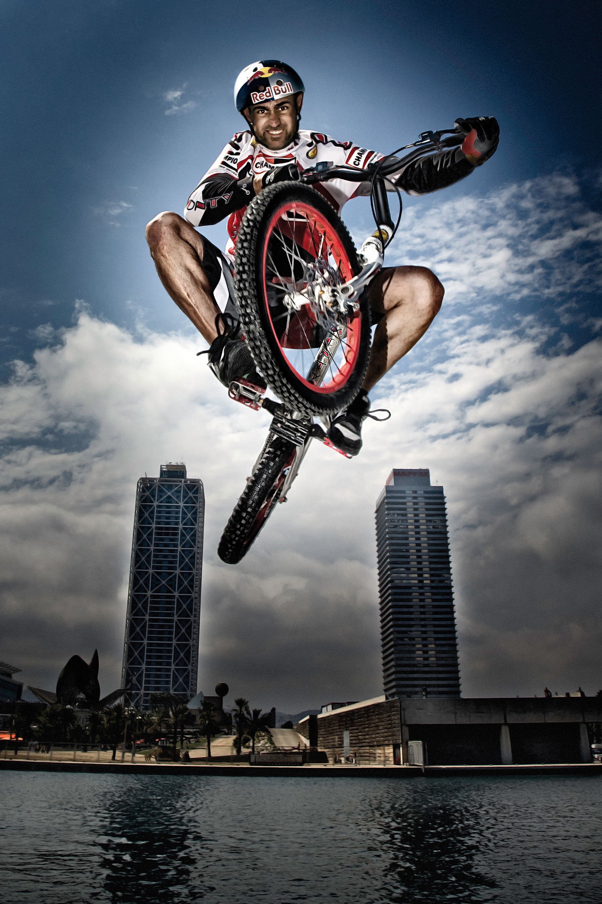 Ot Pi-portada llibre